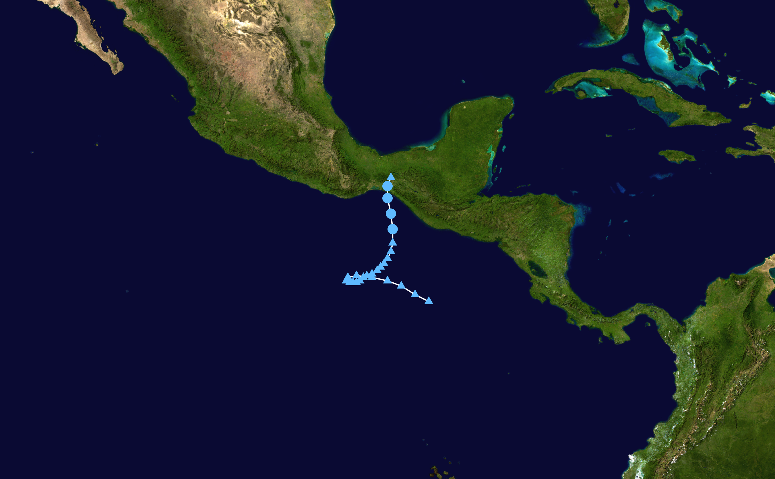 Track map of Tropical Depression Twelve-E of the 2011 Pacific hurricane season. The points show the location of the storm at 6-hour intervals. The colour represents the storm's maximum sustained wind speeds as classified in the Saffir–Simpson scale (see below), and the shape of the data points represent the nature of the storm, according to the legend below. Saffir–Simpson scale Tropical depression≤38 mph≤62 km/h Category 3111–129 mph178–208 km/h Tropical storm39–73 mph63–118 km/h Category 4130–156 mph209–251 km/h Category 174–95 mph119–153 km/h Category 5≥157 mph≥252 km/h Category 296–110 mph154–177 km/h Unknown Storm type Tropical cyclone Subtropical cyclone Extratropical cyclone / Remnant low / Tropical disturbance / Monsoon depression